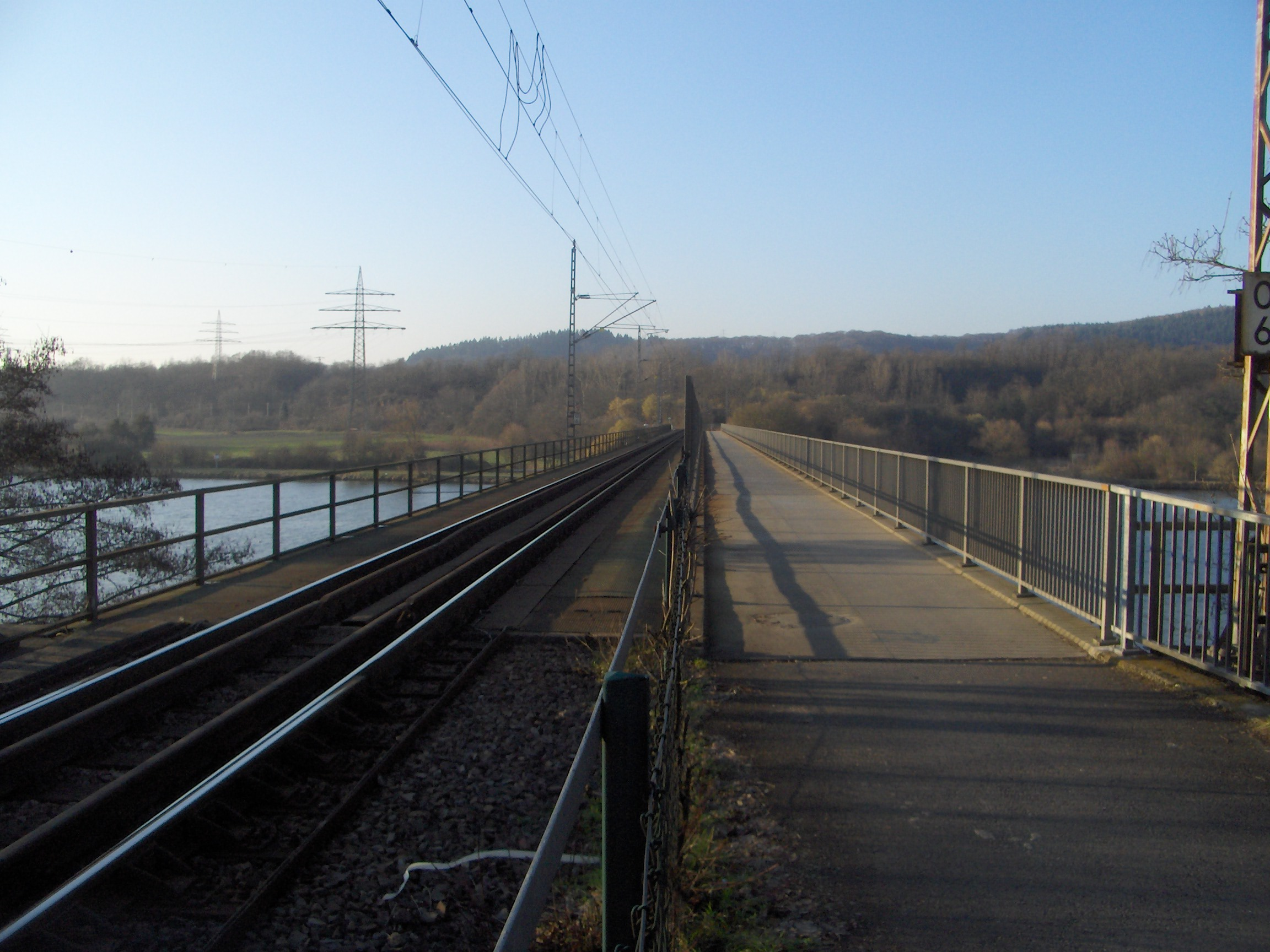 The railroad bride between Konz-Karthaus and Trier-Zewen, Rhineland-Palatinate (Germany) crossing the Moselle River. The brigde was constructed in 1953, replacing an earlier one from 1860 which had been destroyed in 1944. Originally a two-track bridge, one track was replaced by bikeway in the 1990s.